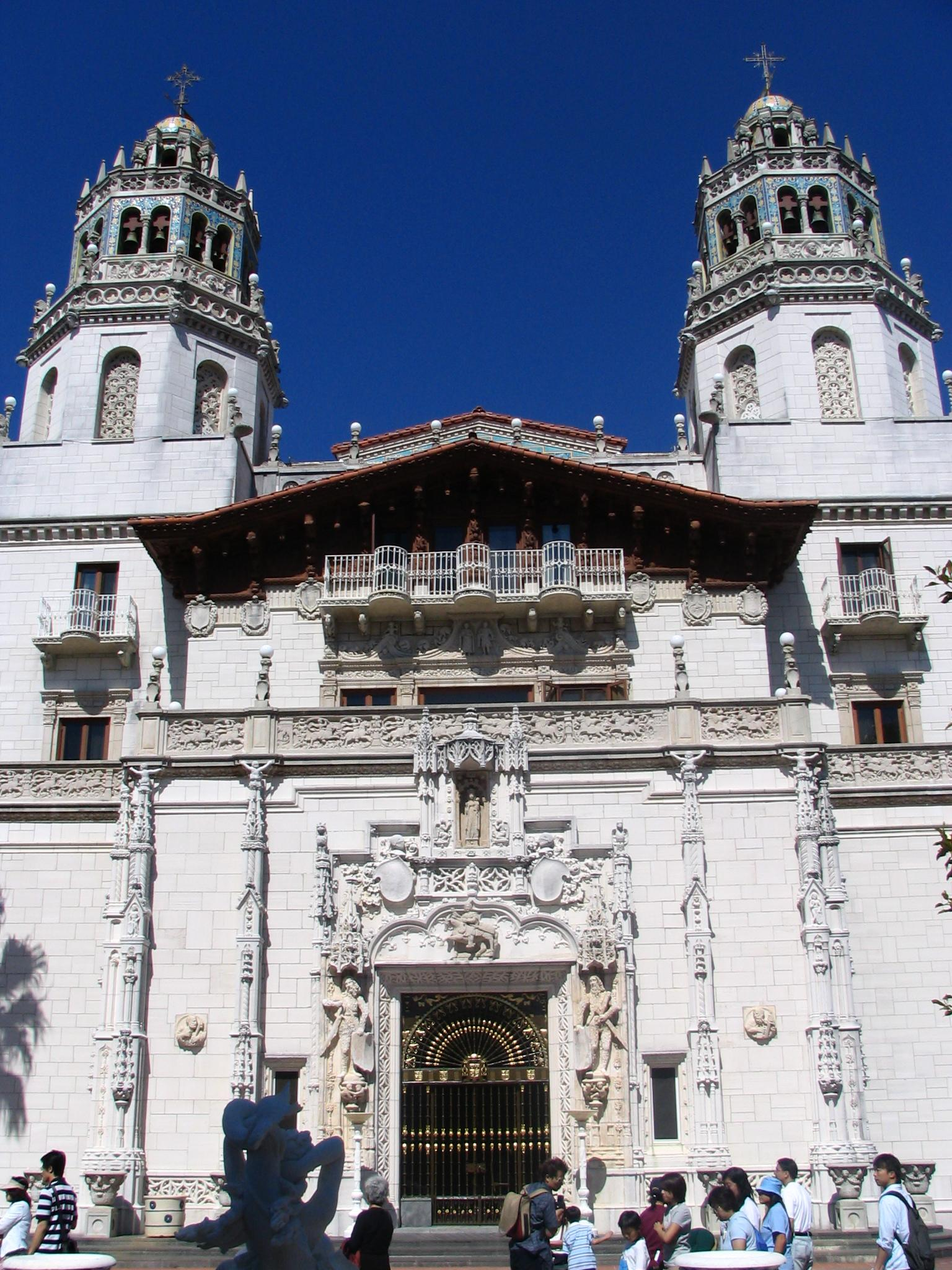 Hearst Castle, California